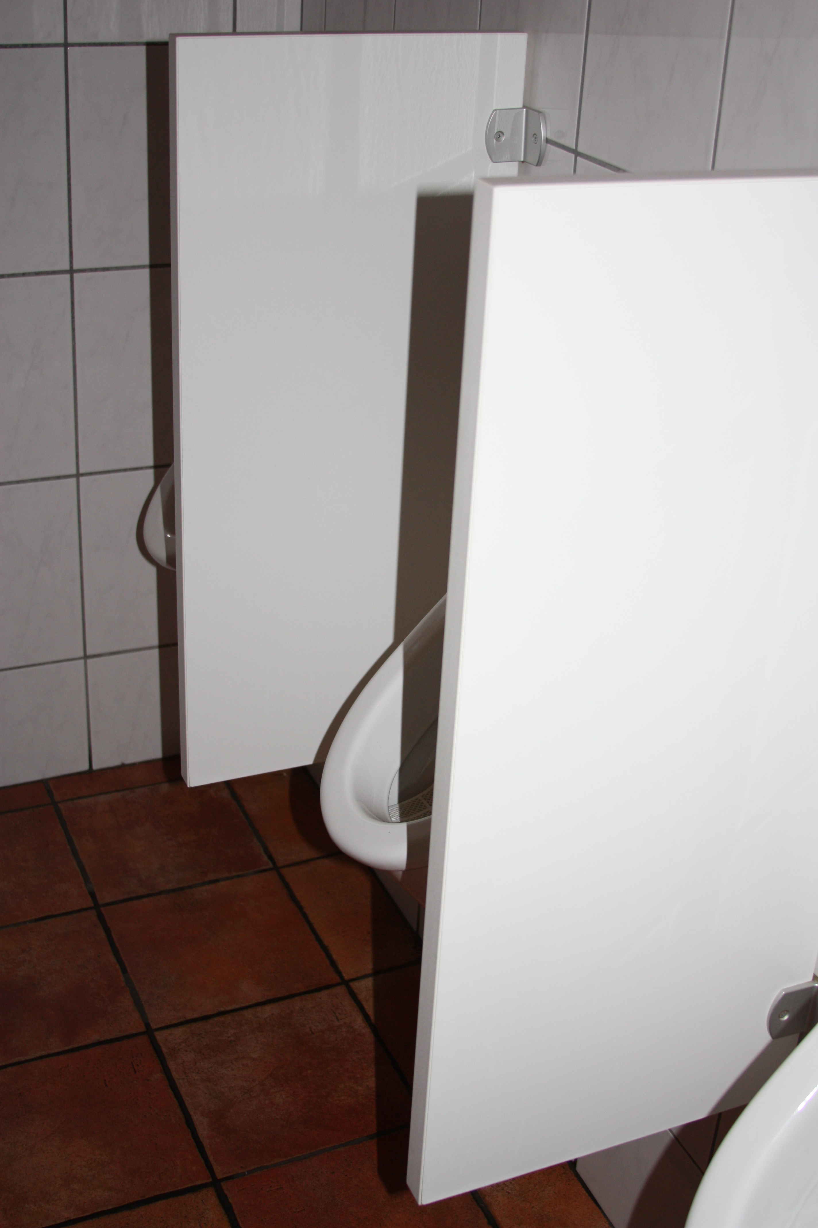 Urinals in Germany, Schamwand